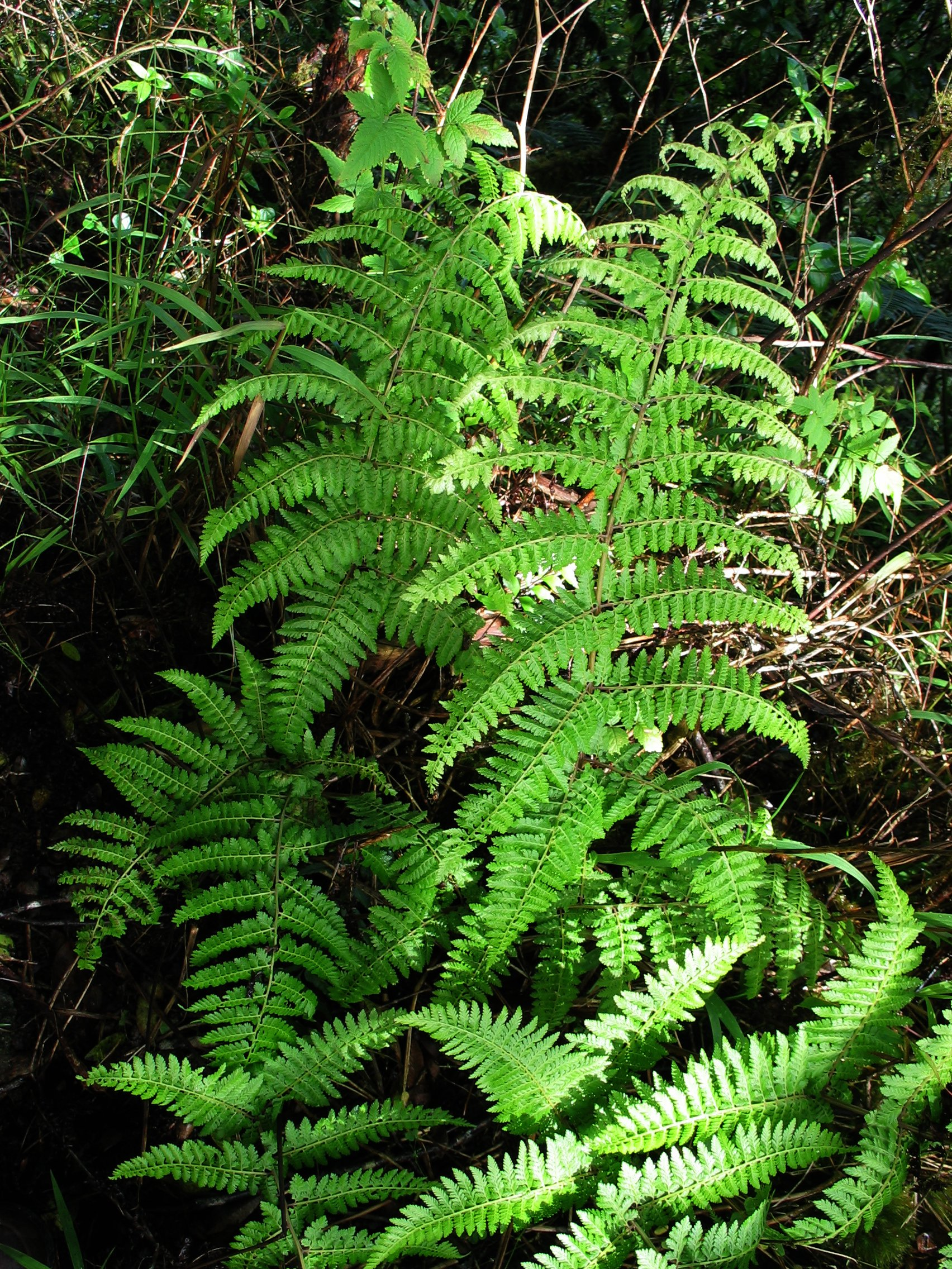 ʻĀkōlea Woodsiaceae Endemic to the Hawaiian Islands Puʻu Kaua, Waiʻanae Mts., Oʻahu In Hawaiian kaua means "war," but kauā means "servant."